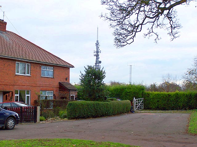 UHF Relay Station, Nottingham. The TV transmitter relays Waltham and was a phase I Channel 5 transmitter. On the same site there are also a number of other aerials for mobile phones etc.